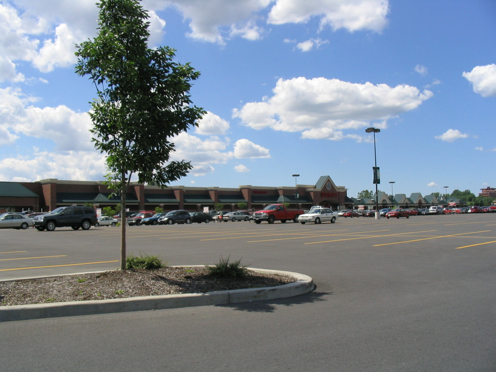 photo of the Fayetteville Towne Center in Fayetteville, NY, taken by me on June 20, 2004